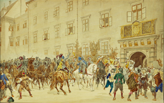 Siegmund L'Allemand